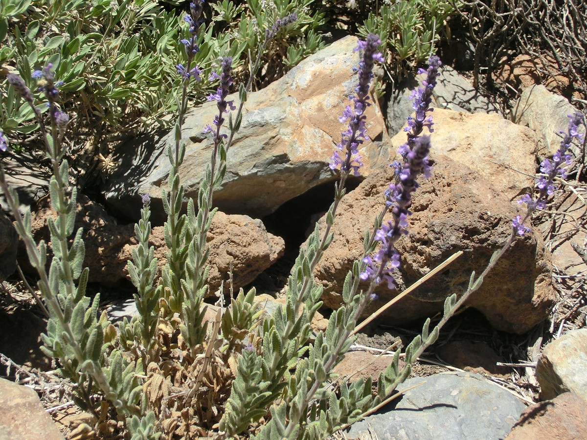 Nepeta teydea. Tenerife, Teide National Park, near Roques de Garcia, between rocks, ca. 2100 m.